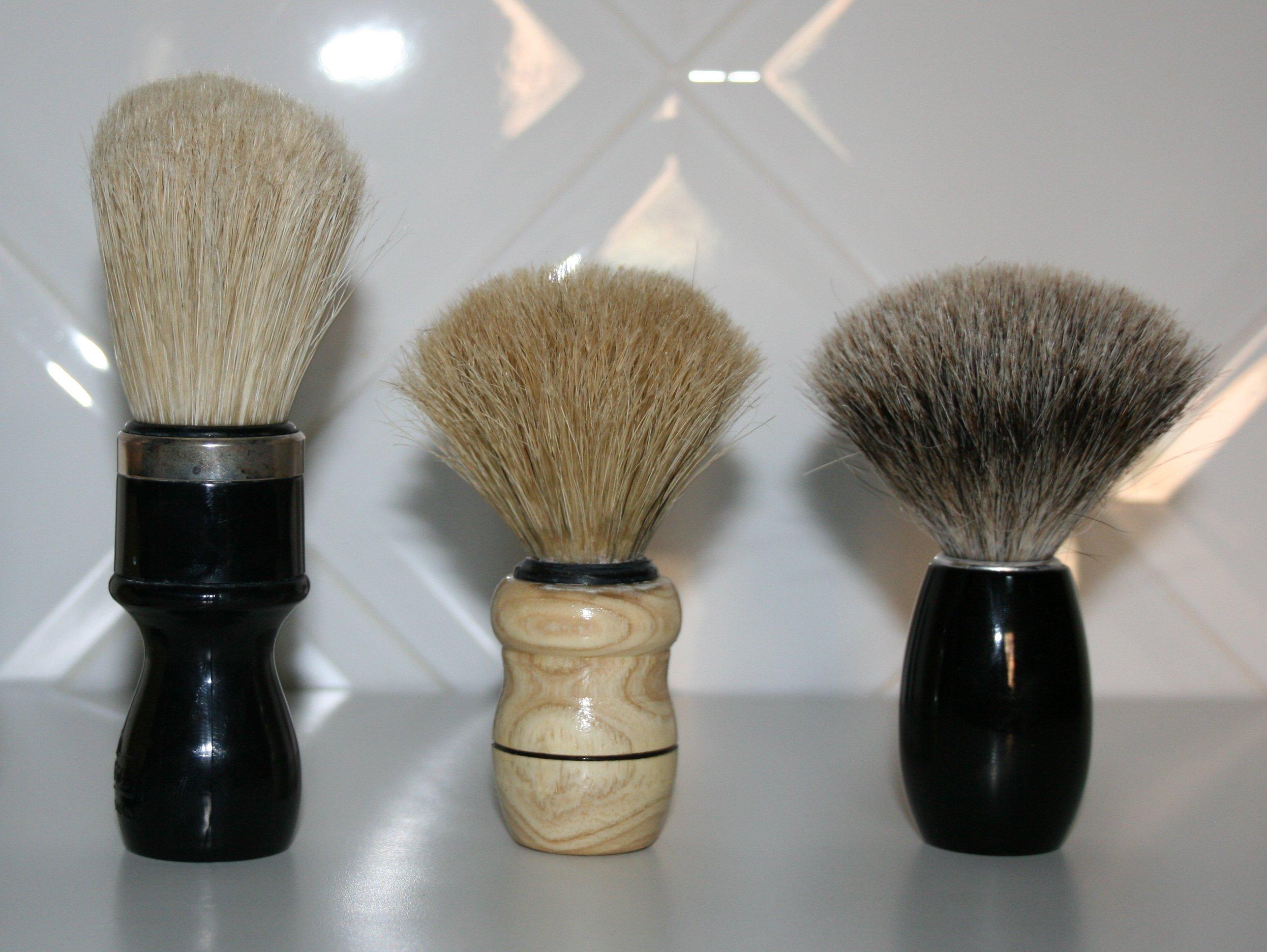 Different shaving brushes, from left: bristle on drying support, bristle, horse, pure badger.